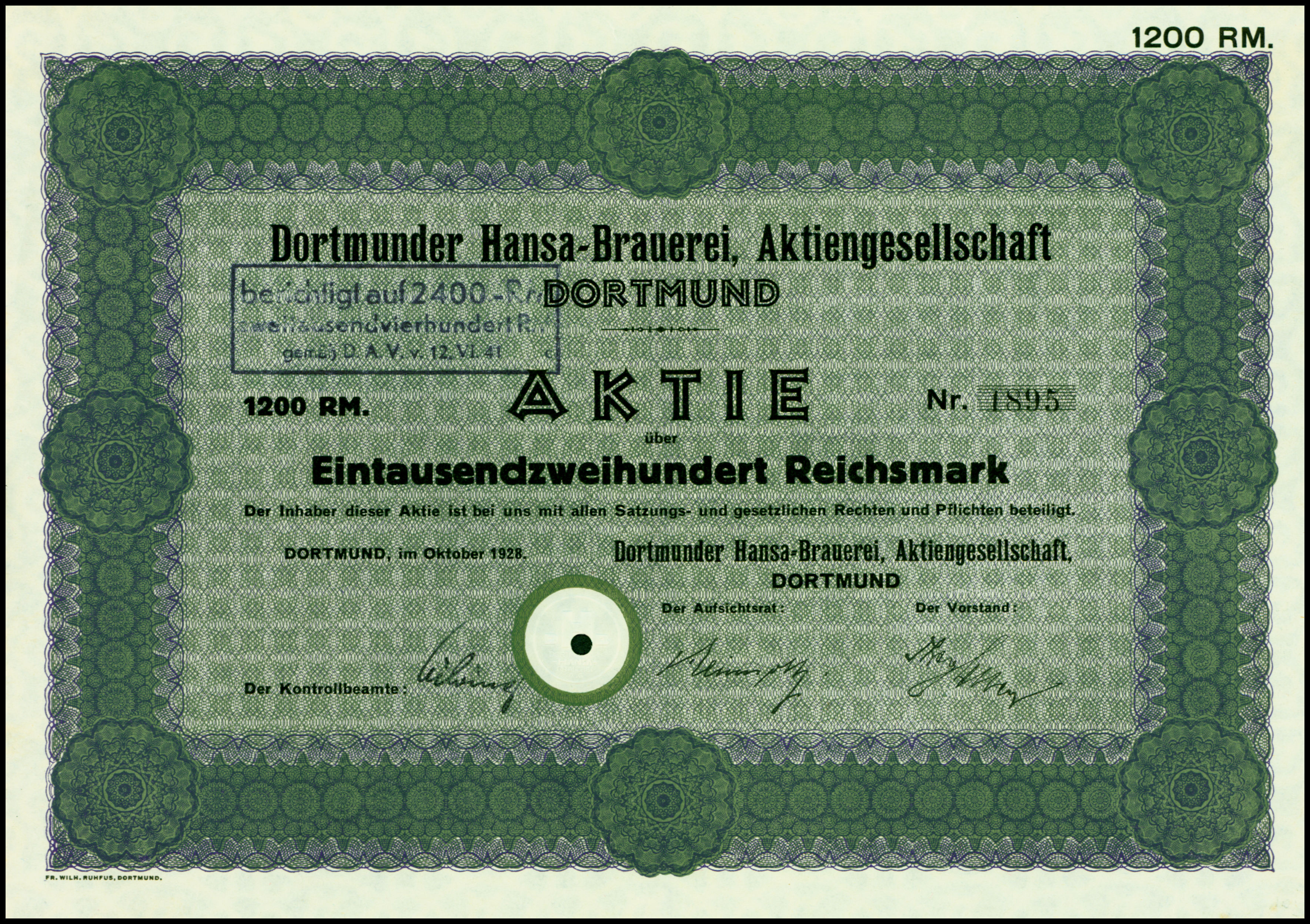 Share of the Dortmunder Hansa-Brauerei AG, issued October 1928